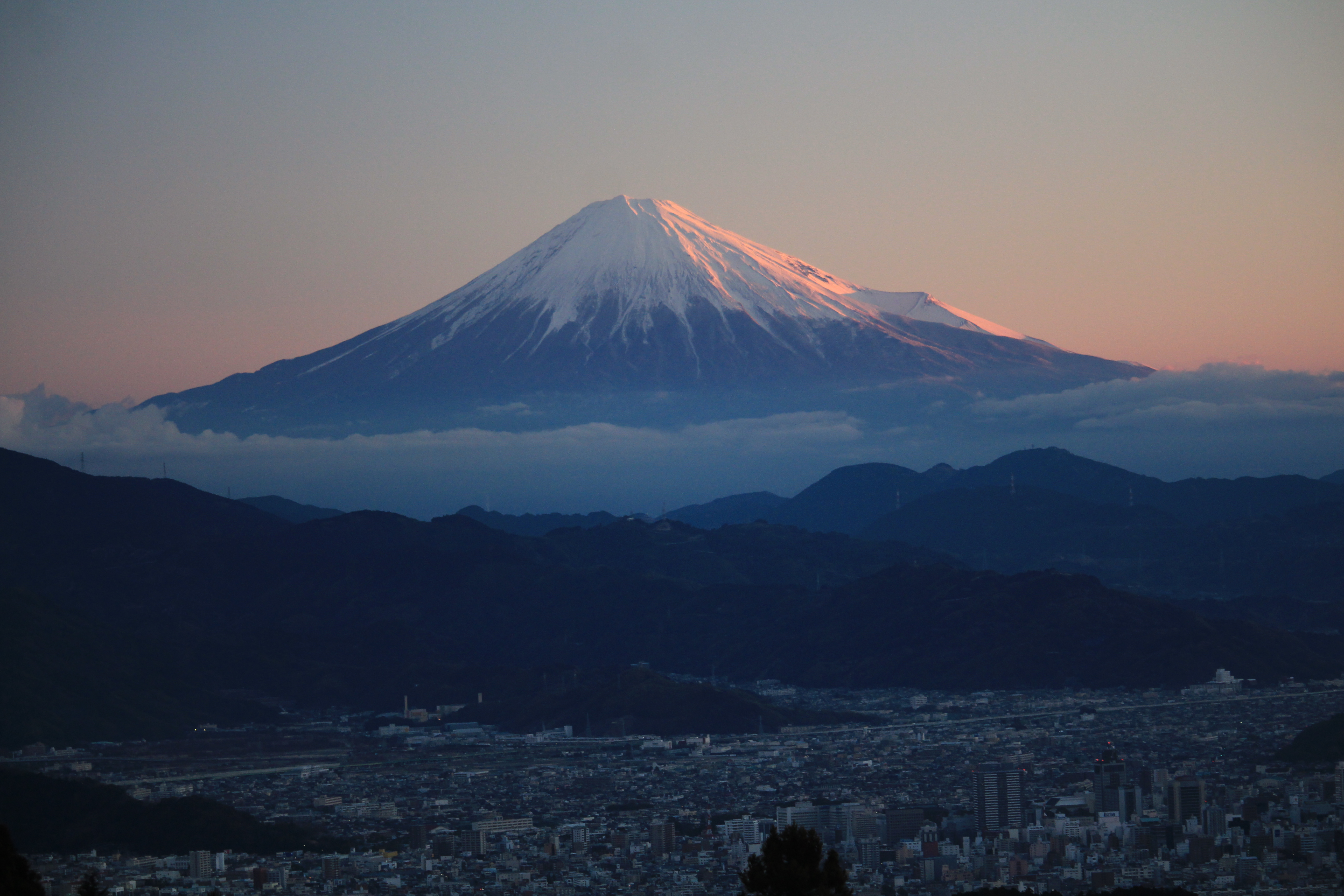 Mount Fuji and Shizuoka city seen from Mankanho in Shizuoka prefecture, Japan.